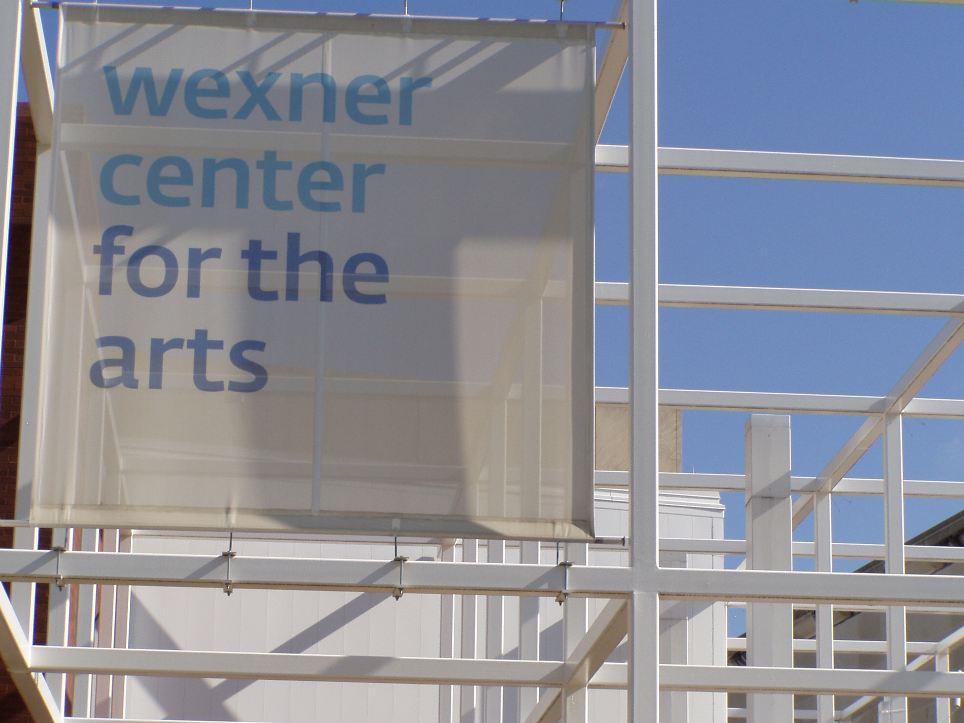 The Wexner Center for the Arts at The Ohio State University